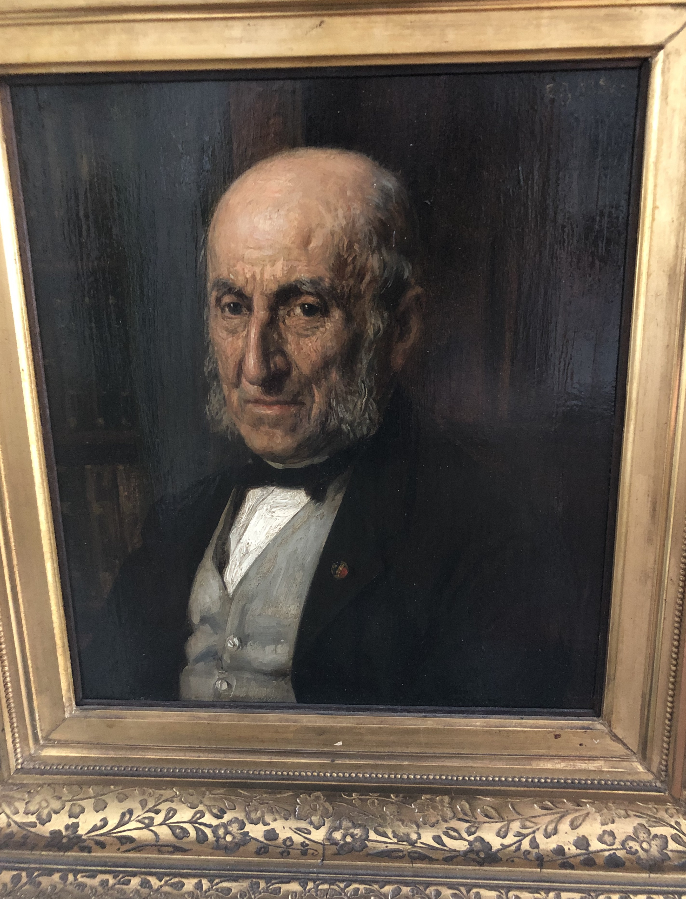 Evert Jan Boks